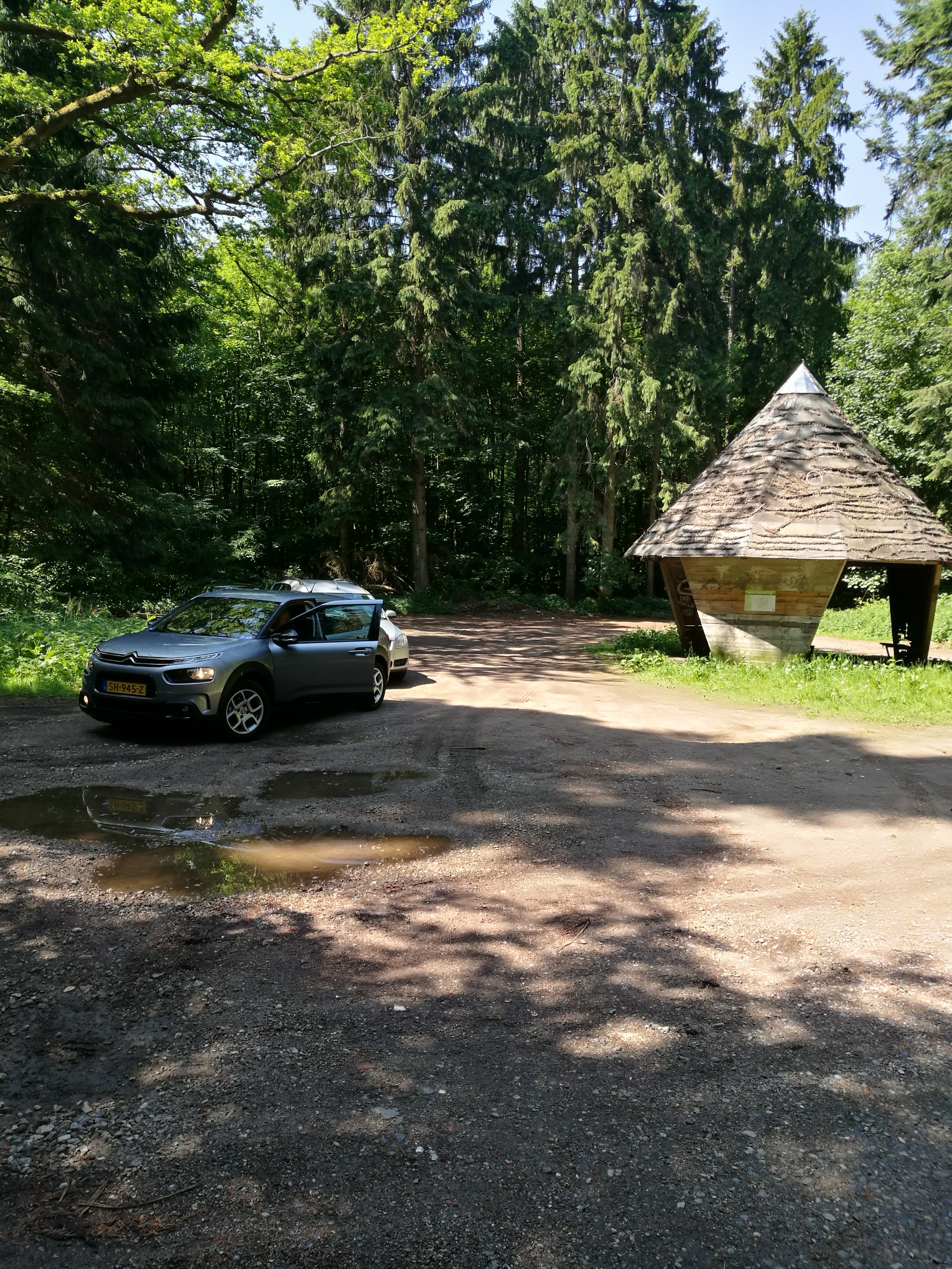 Pöppendorf Lager